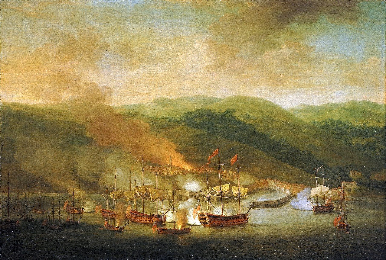 The English painter Samuel Scott (1702–1772) specialized in marine painting and views of London. This oil painting relates to events of the Austrian War of Succession, 1740–48, during which the British fleet occupied the Corsican port of Bastia in 1745. In the foreground the English fleet has closed in on the harbour, bombarding the town, which has already caught fire.